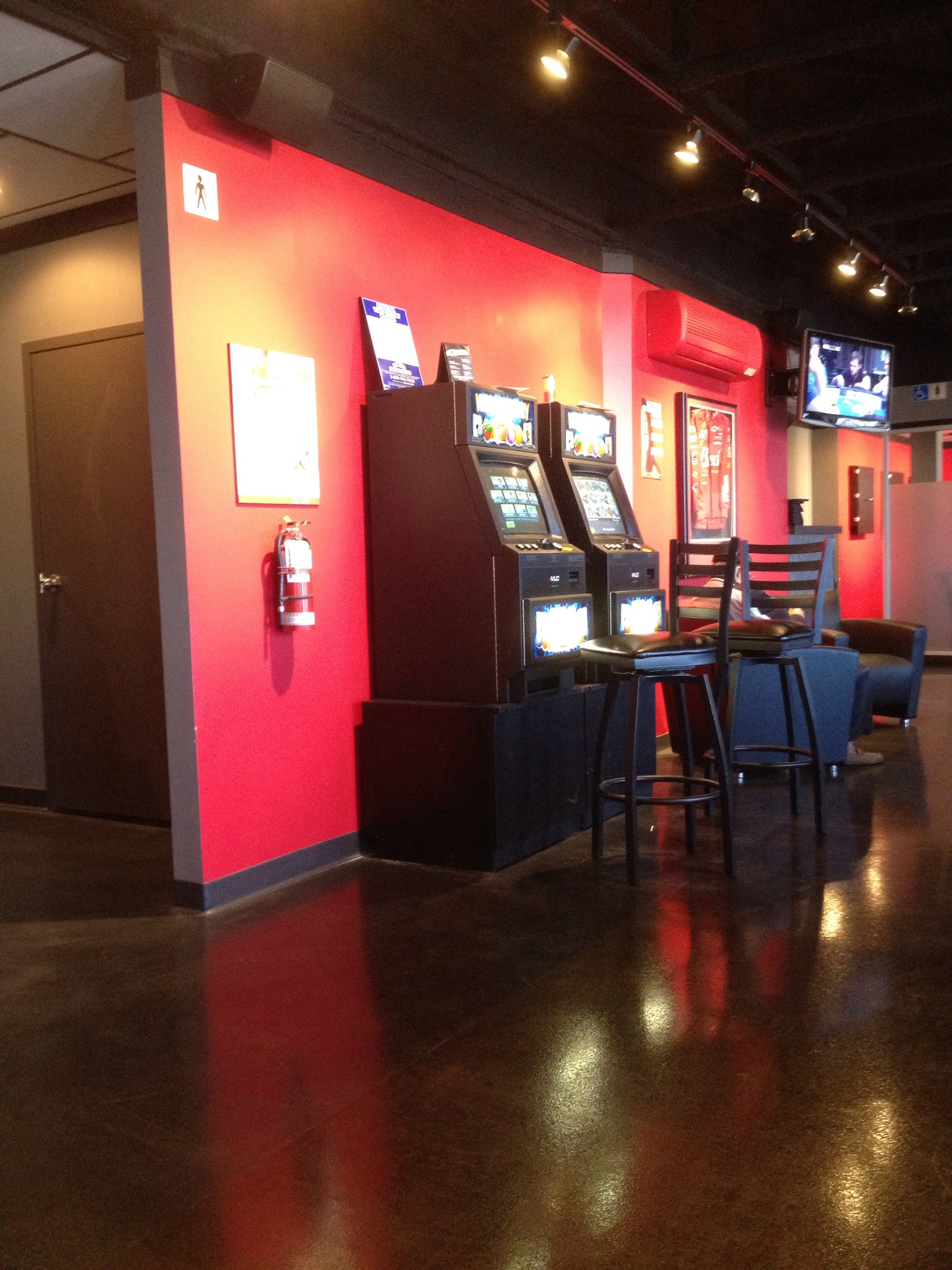 Video lottery terminals in bar in Alberta